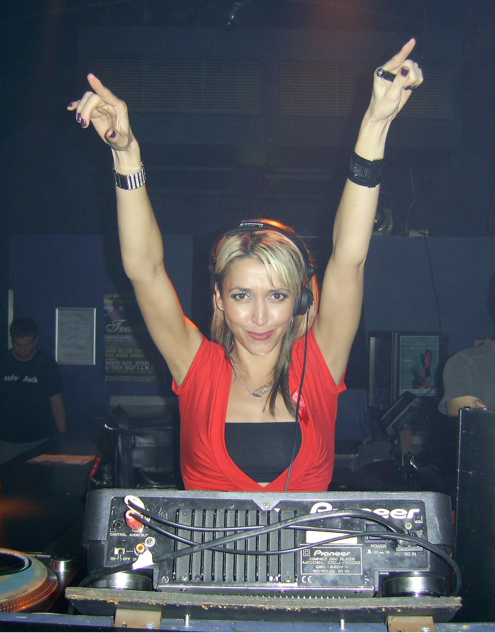 Photograph of Lisa Pin-Up at Heaven, London, taken by Nick Cooper 2 December 2006.